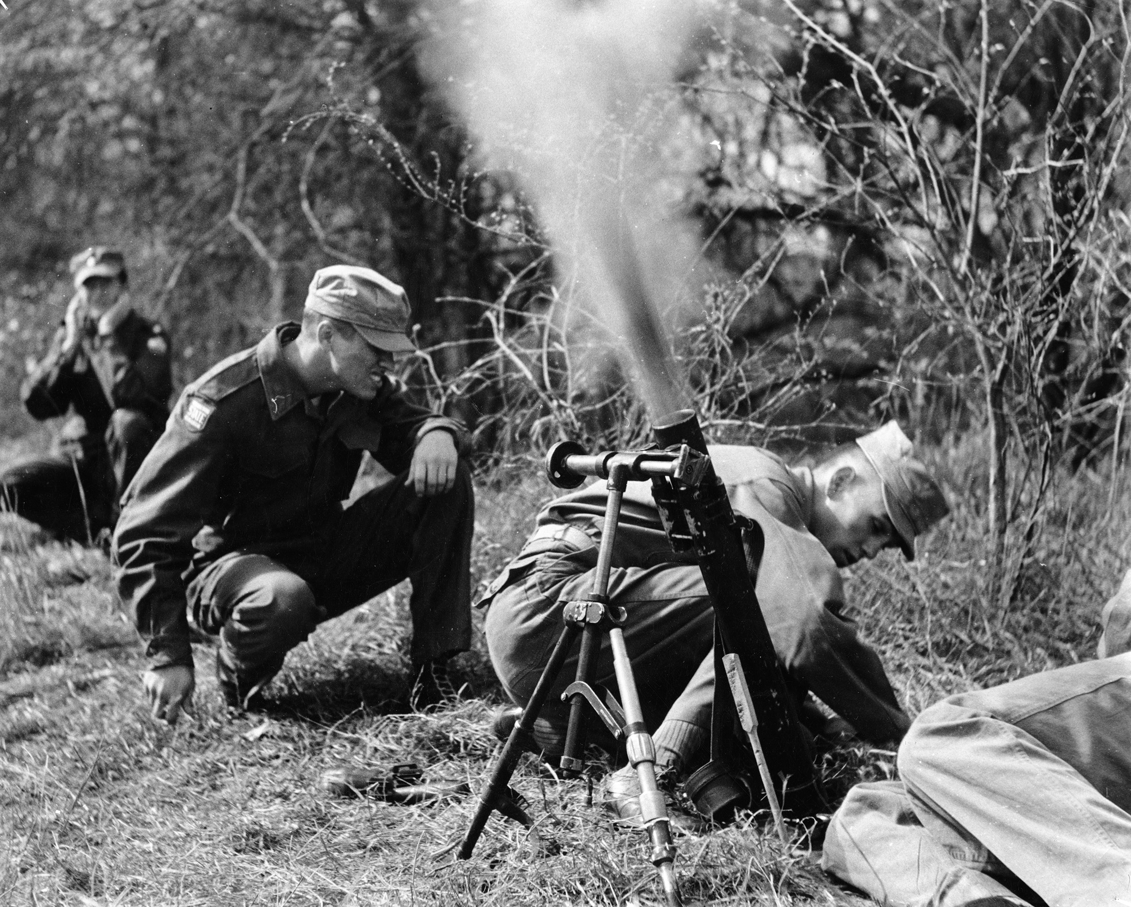 Arlington State College Reserve Officers' Training Corps students firing mortars during field exercise.